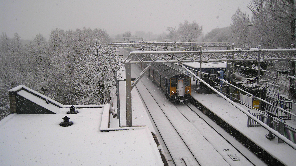 The trains were still running, albeit 10 minutes late.